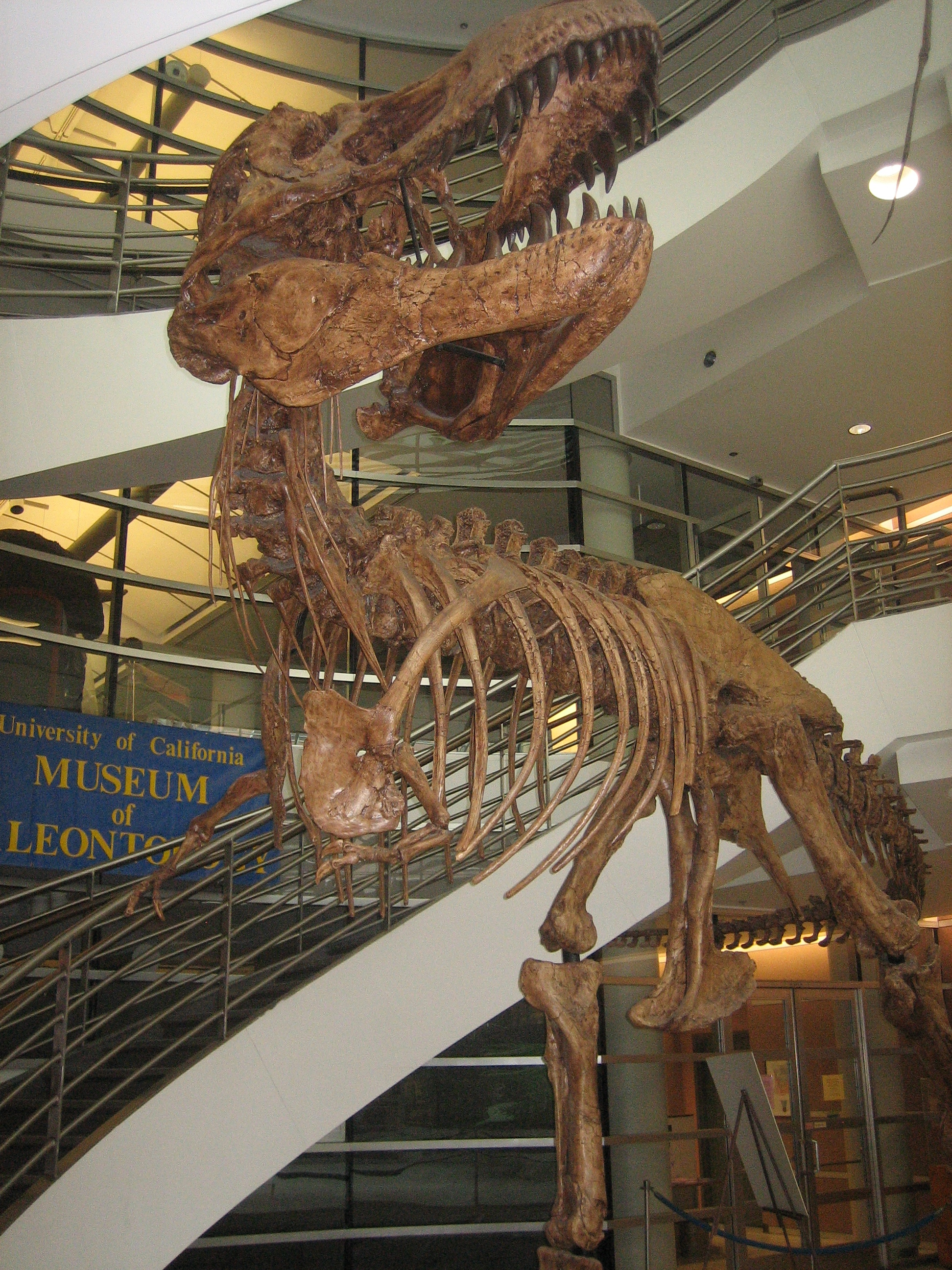 Cast of the "Wankel T. Rex" at the University of California Museum of Paleontology.